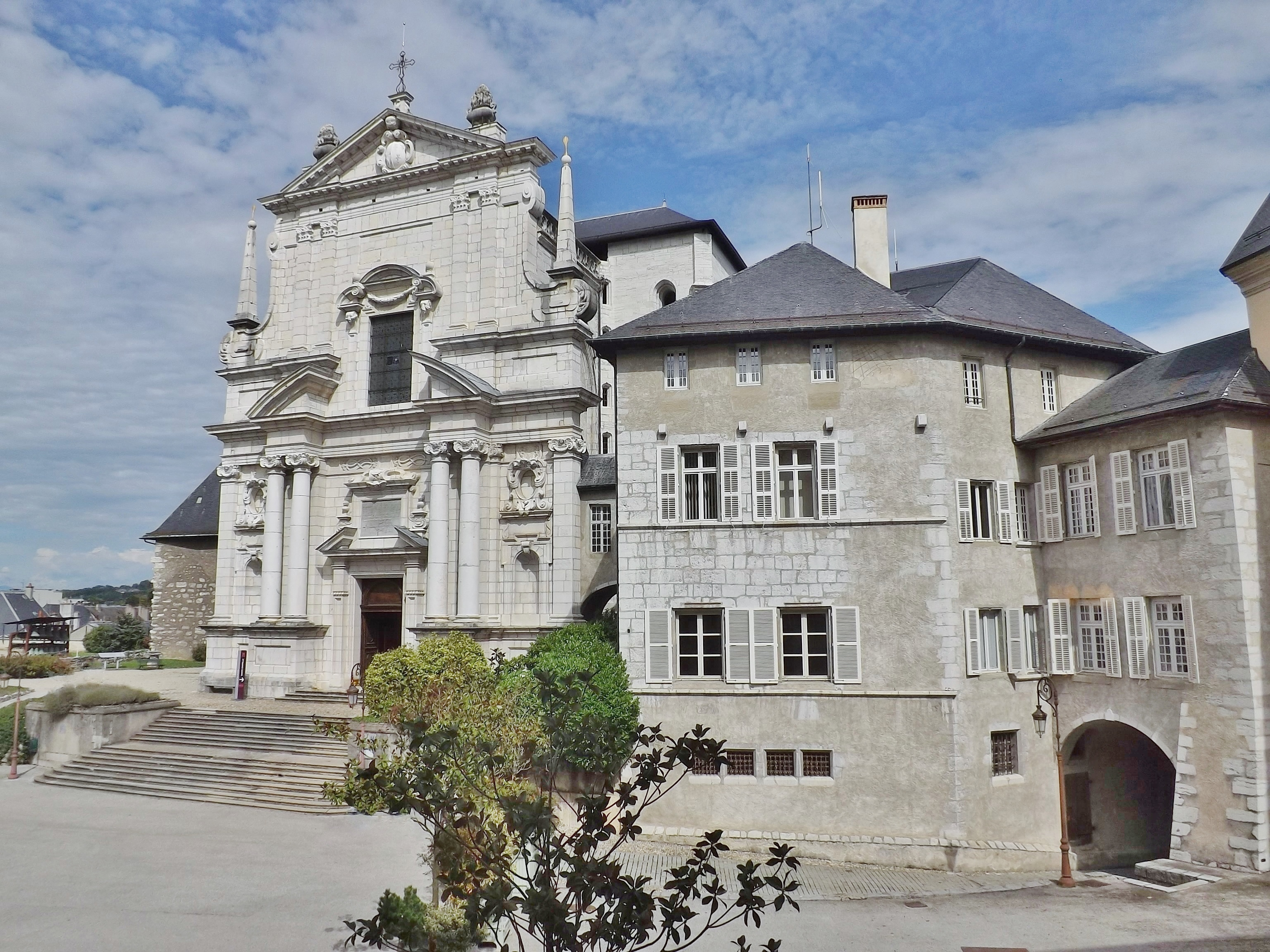 Sight of the court and Sainte-Chapelle of the château des Ducs de Savoie castle in Chambéry, Savoie, France.